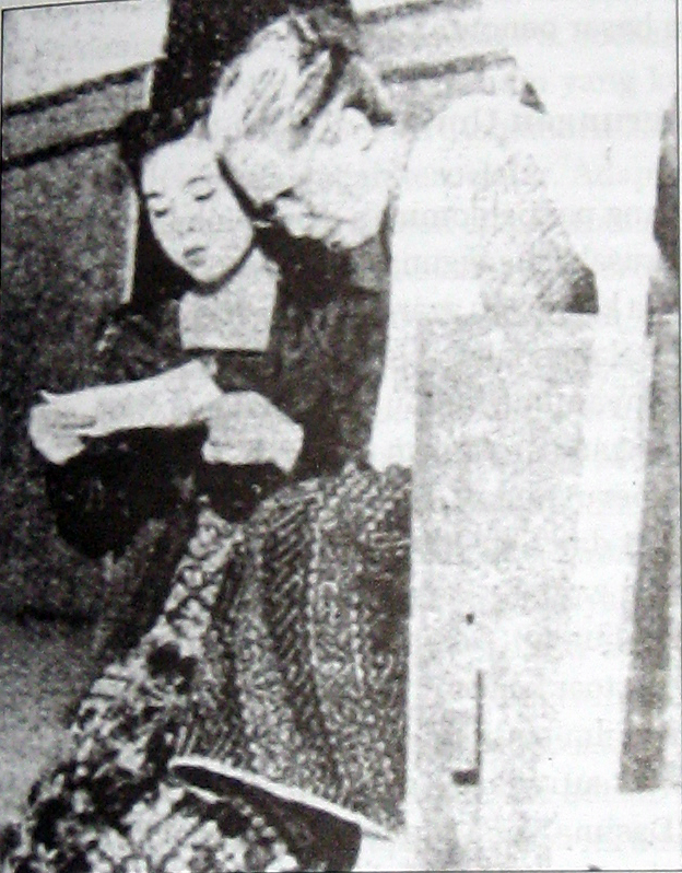 Film still from the 1941 film Air Mata Iboe